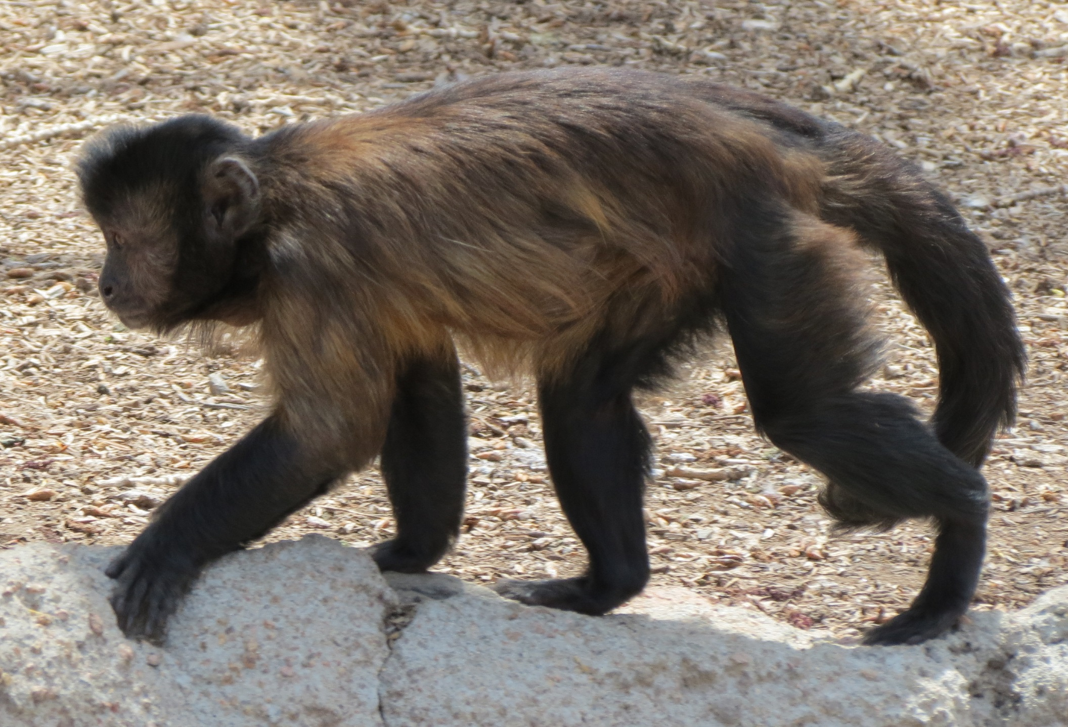 hooded capuchin monkey, Denver Zoo, Colorado / 2013